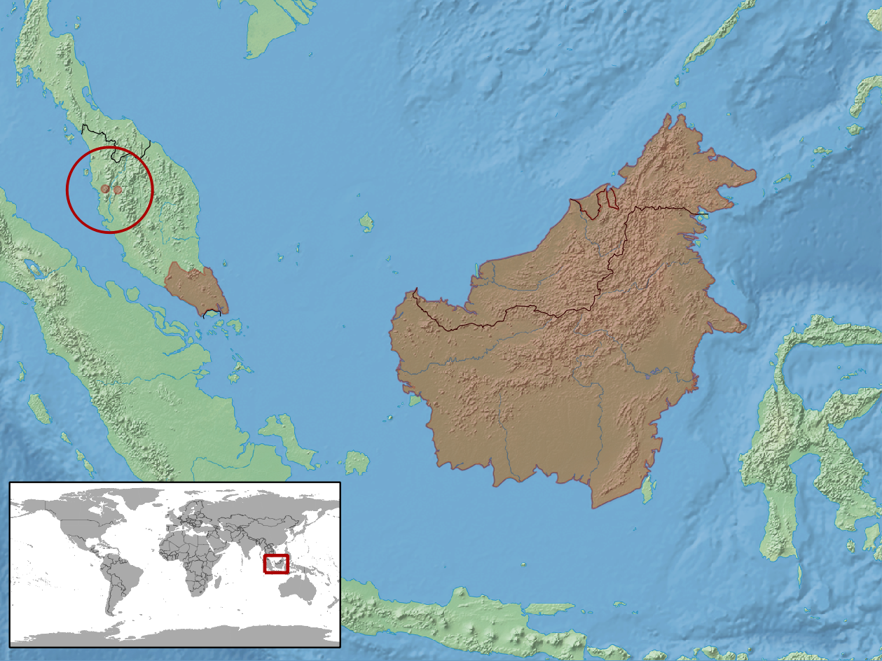 geographic distribution of Gonyophis margaritatus (Native: Indonesia (Kalimantan); Malaysia (Sabah, Sarawak))